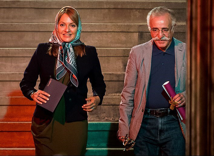 17th Iranian cinema celebration was held in Masoudieh Mansion by Iran's House of Cinema.